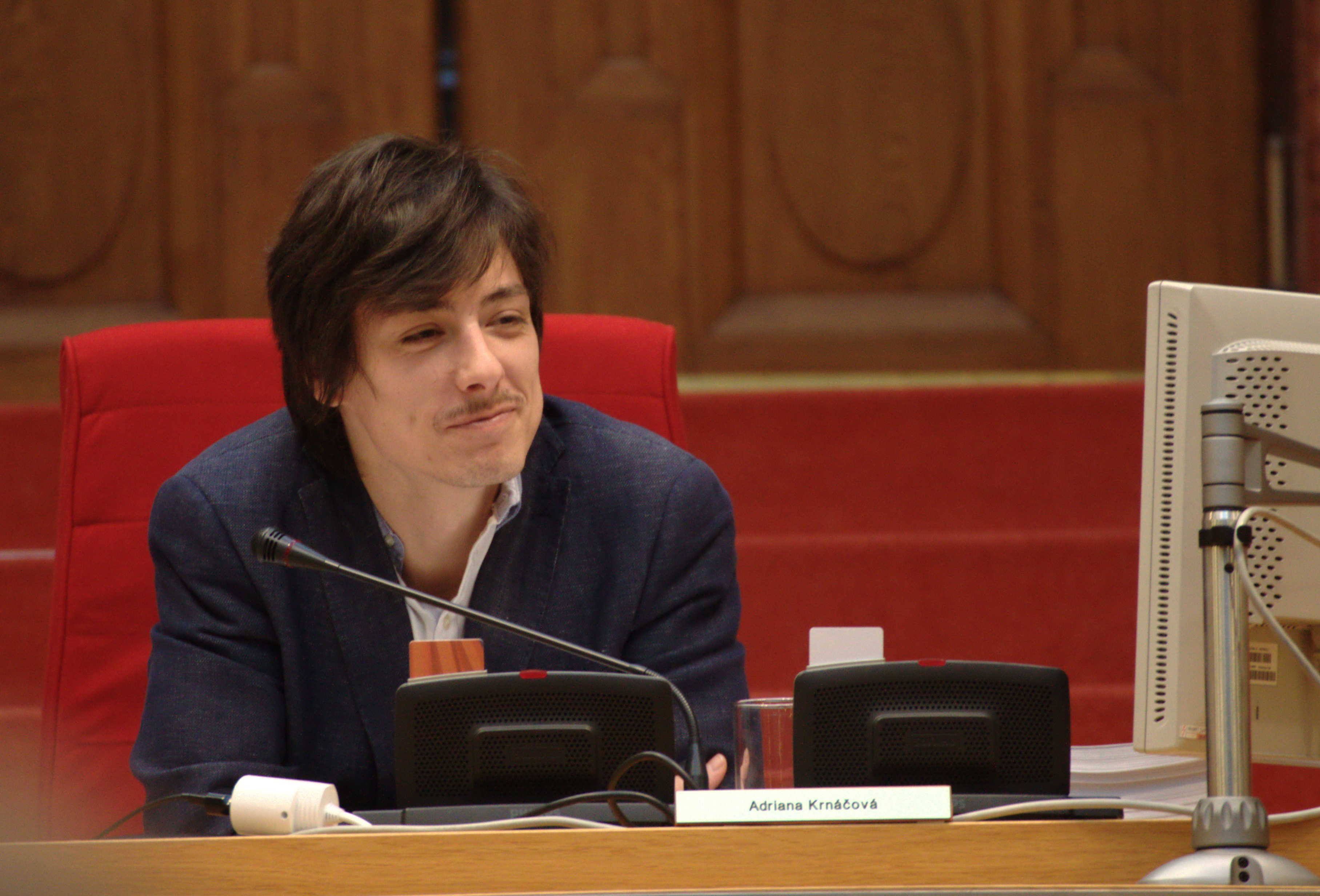 Prague Council member Matěj Stropnický